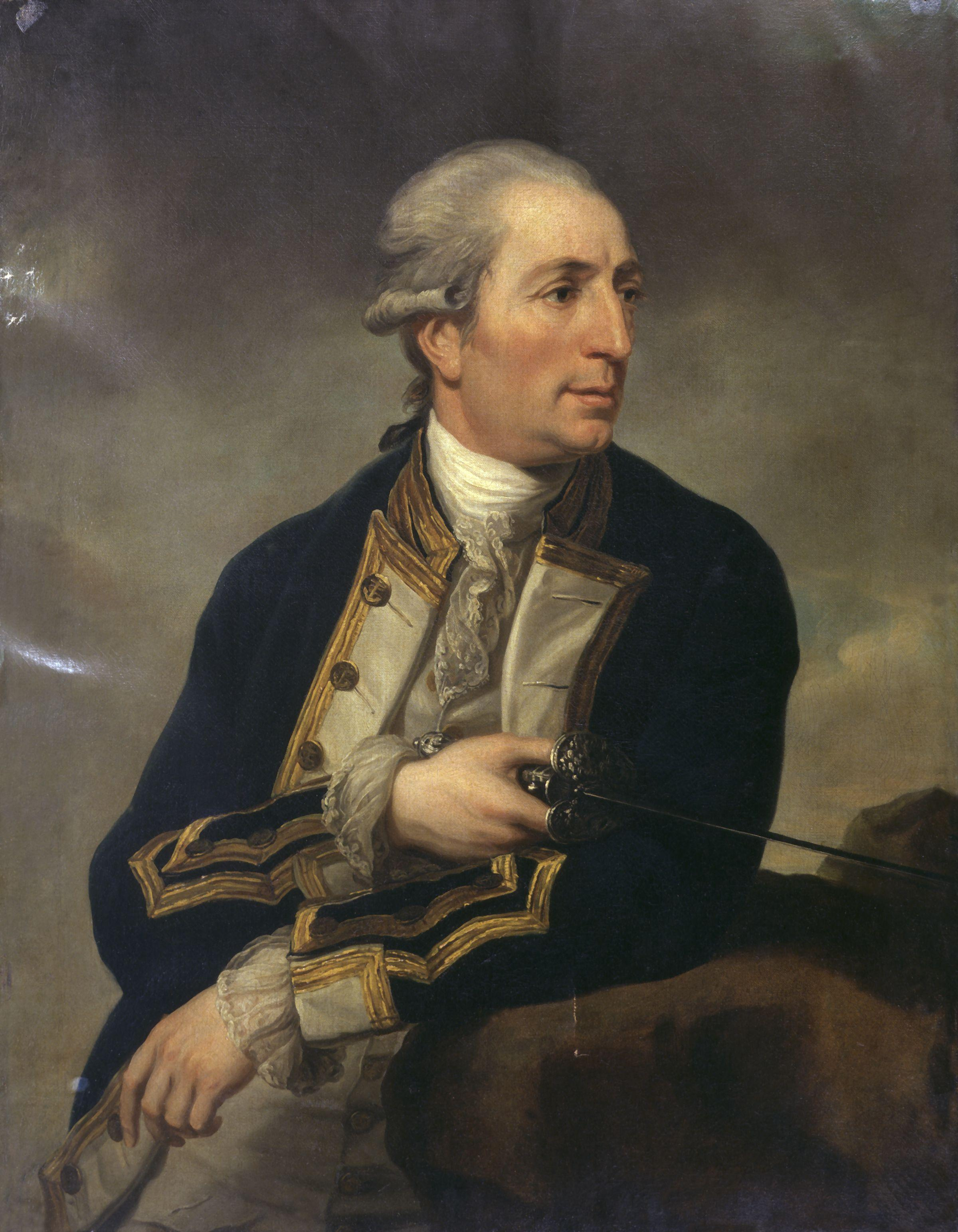 George Farmer, by Charles Grignion (died 1804). All images in this batch have been confirmed as author died before 1939 according to the official death date listed by the NPG.